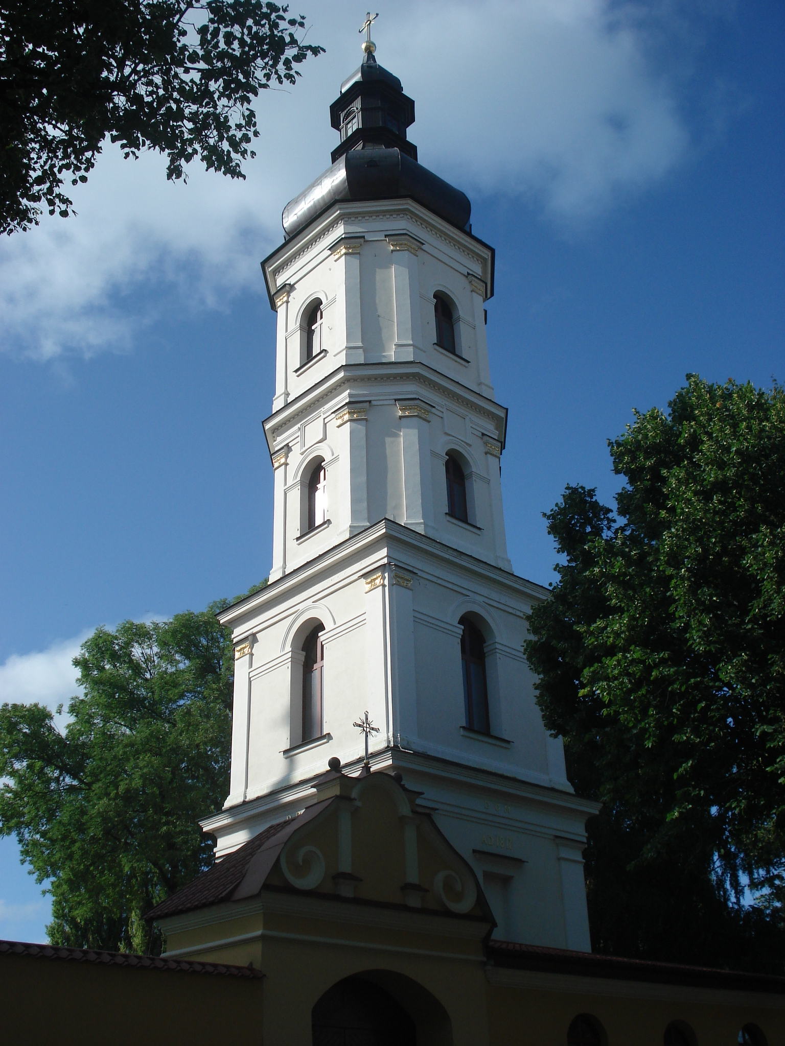 Cathedral of Name of the Blessed Virgin Mary, Pinsk